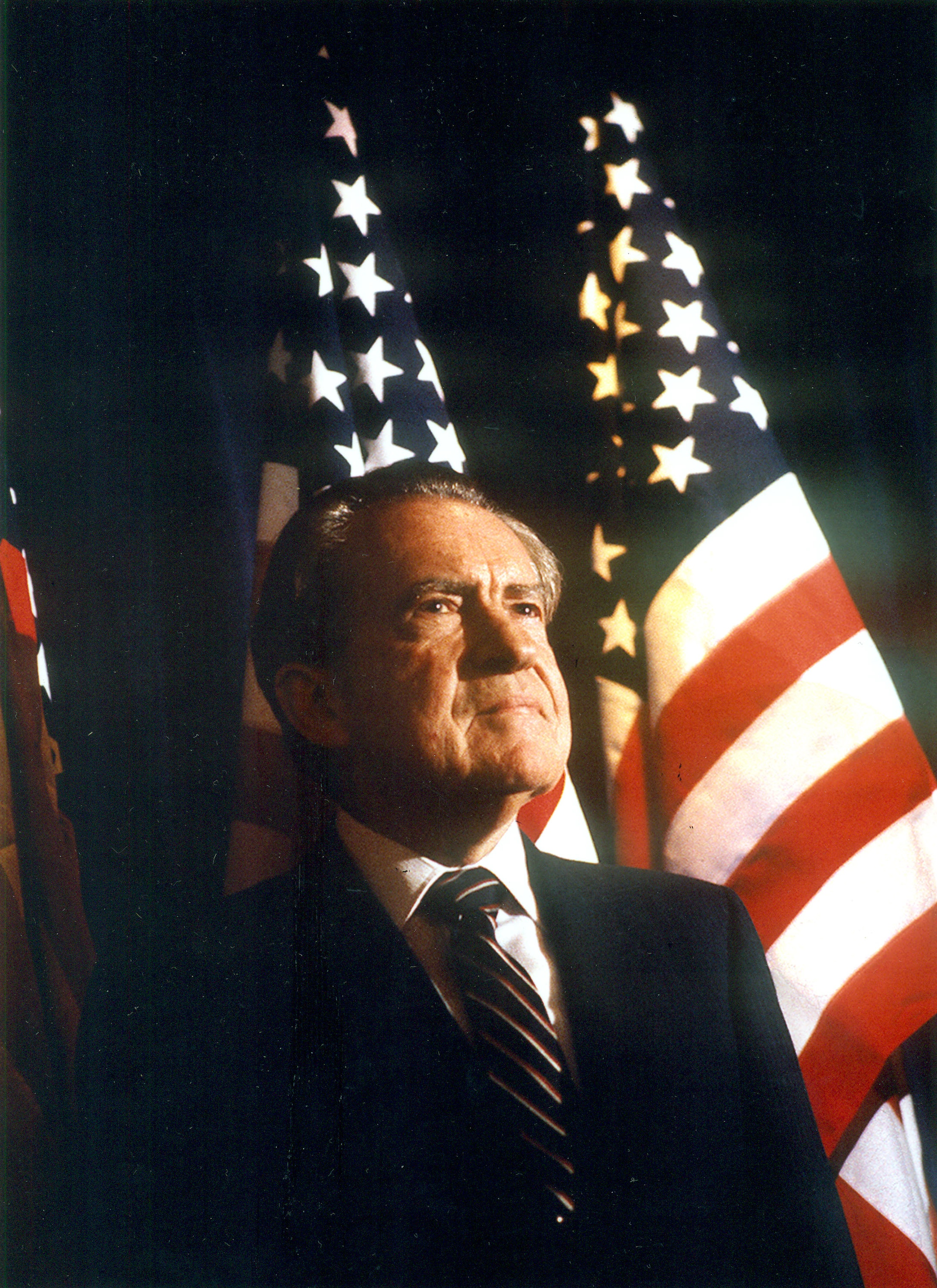 Former President Richard Nixon is the keynote speaker at the Fairmont Hotel in San Francisco, California in 1986 for the Newspaper Editors. Photograph by Nancy Wong